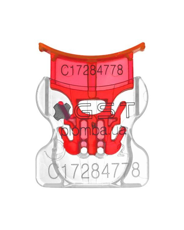 seal3w